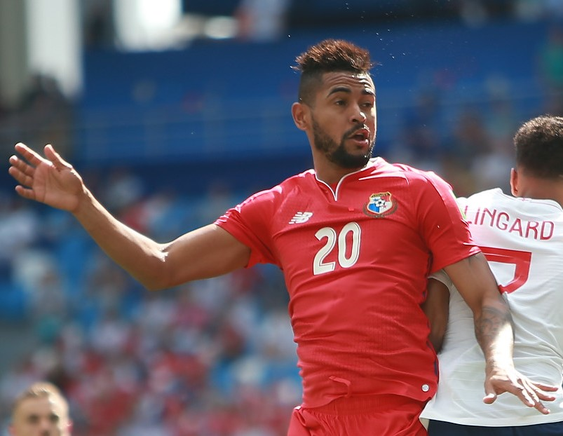 Aníbal Godoy